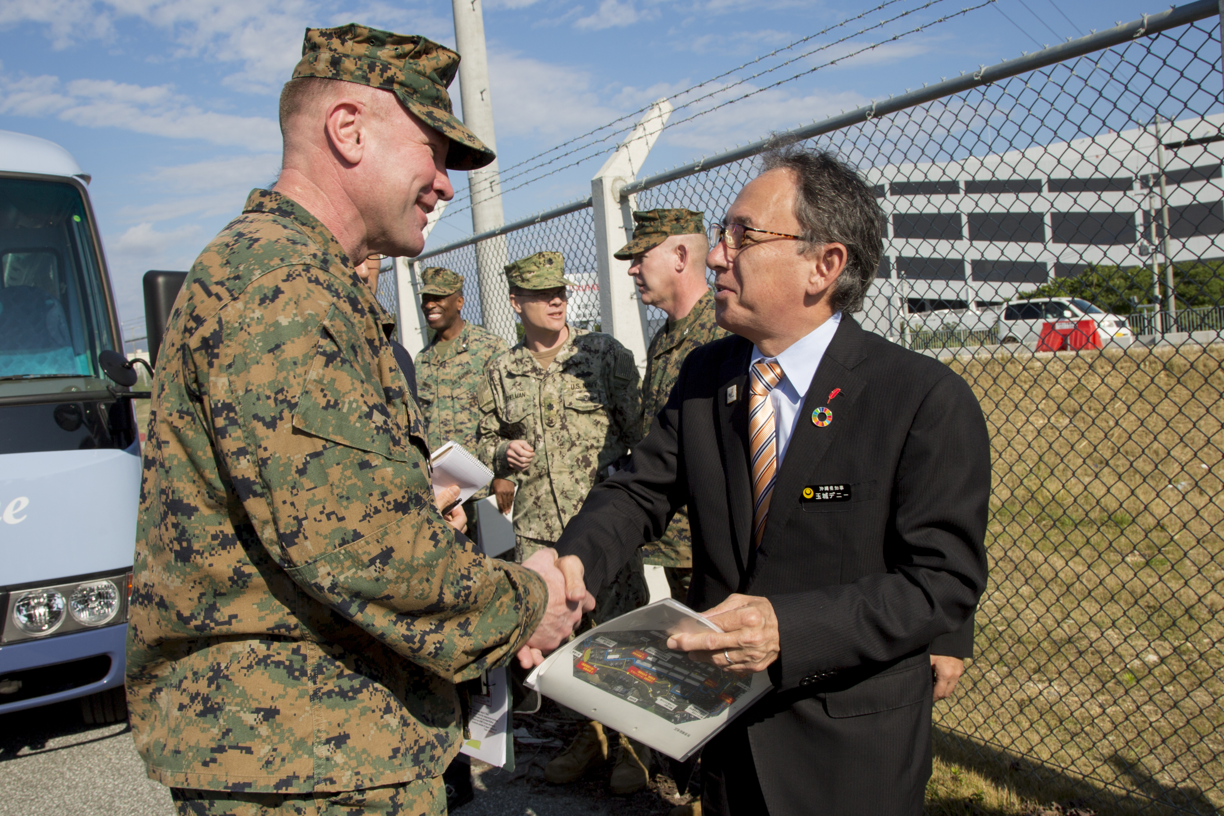 U. S. Marine Corps Brig. Gen. Christopher McPhillips, deputy commanding general of III Marine Expeditionary Force, thanks Okinawa Governor, Denny Tamaki with a hand shake during a tour on Camp Kinser, Okinawa, Japan, Jan. 31, 2019. During the tour, members of the party were shown various buildings and tracts of land designated to be returned to the Government of Japan as part of the consolidation and relocation project. (U.S. Marine Corps photo by Lance Cpl. Nicole Rogge)